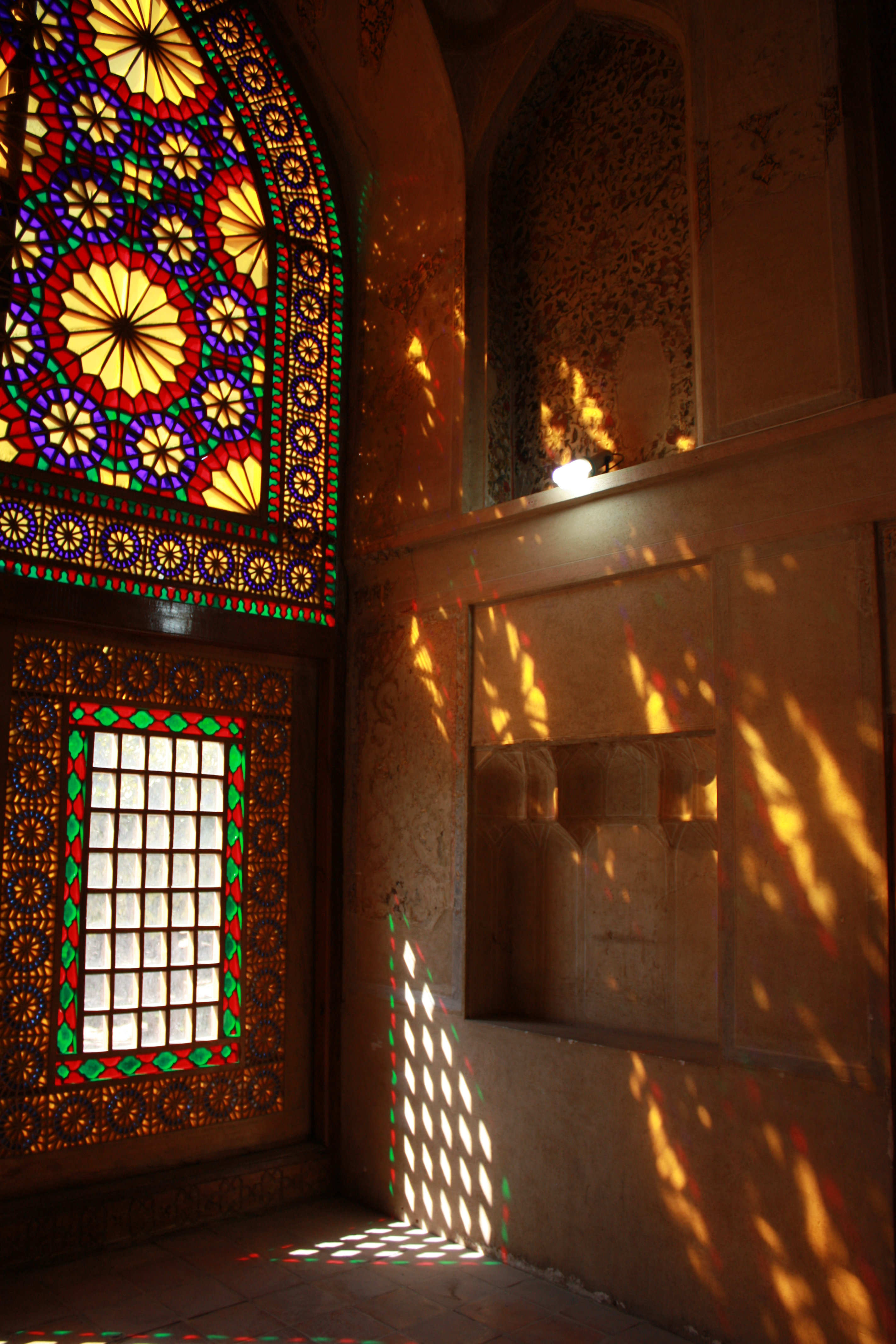 Arg of Karim Khan in Shiraz